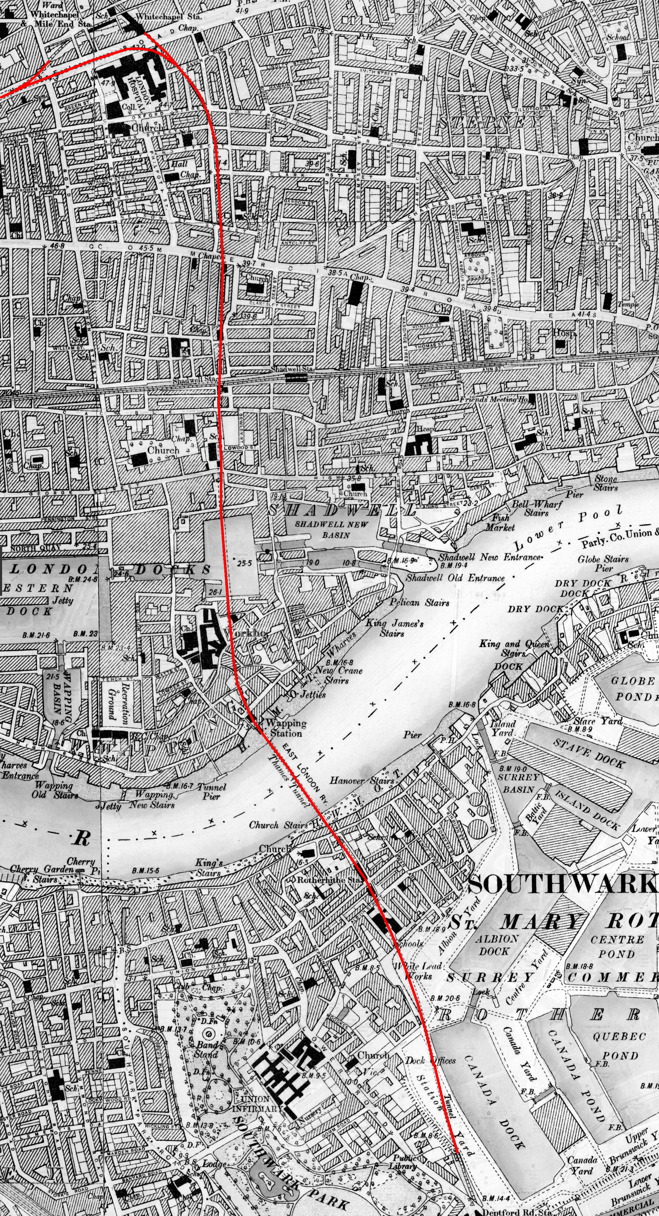 Map of the underground routing and approaches (highlighted in RED) to the Thames Tunnel, London UK, beginning at Whitechapel station and continuing south under Shadwell until reaching Wapping railway station, thence through the Thames Tunnel under the River Thames to Rotherhithe station and still underground passes beneath Southwark until it emerges from the ground near Deptford Road Station.